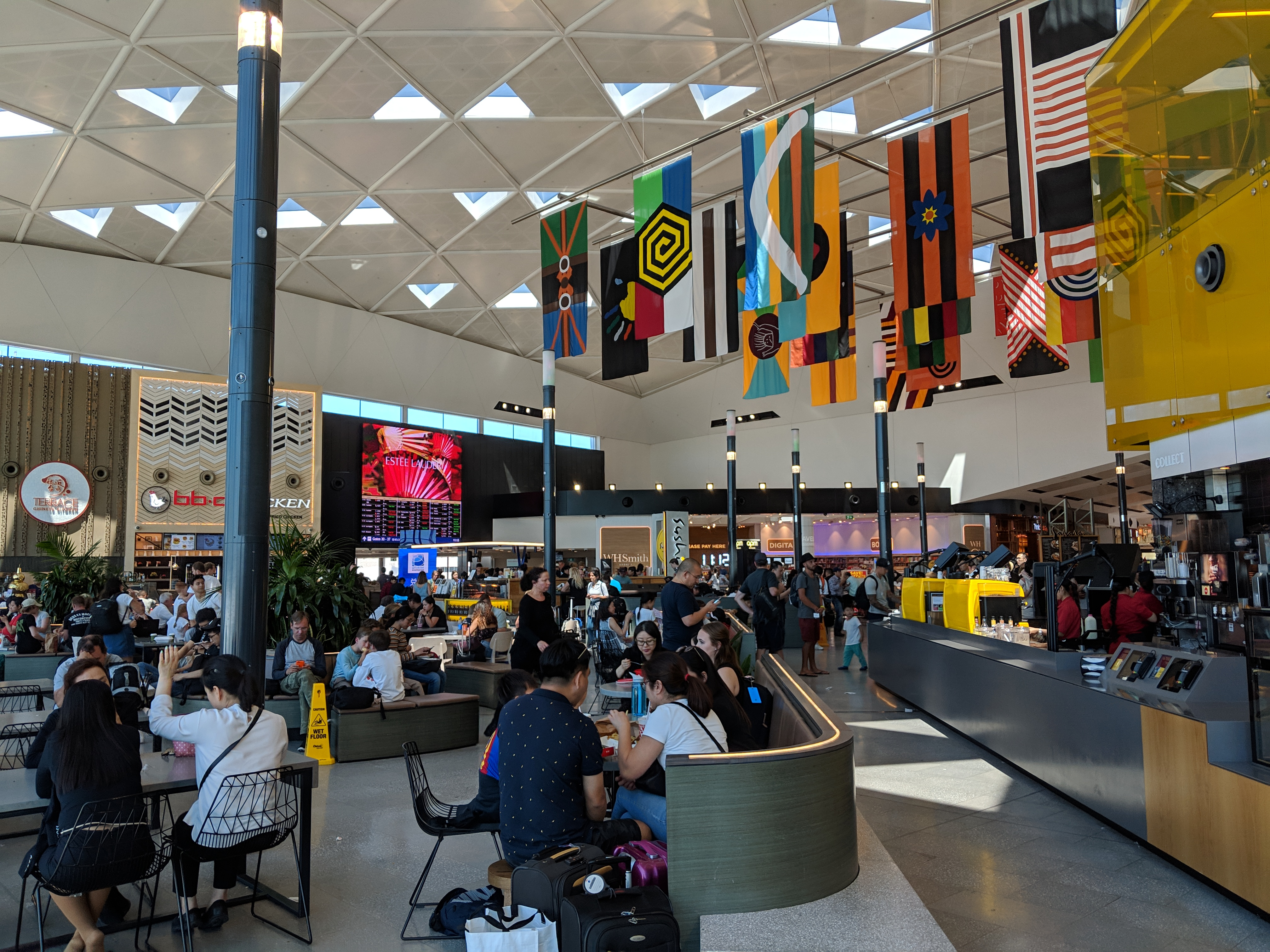 Sydney Airport Terminal 1